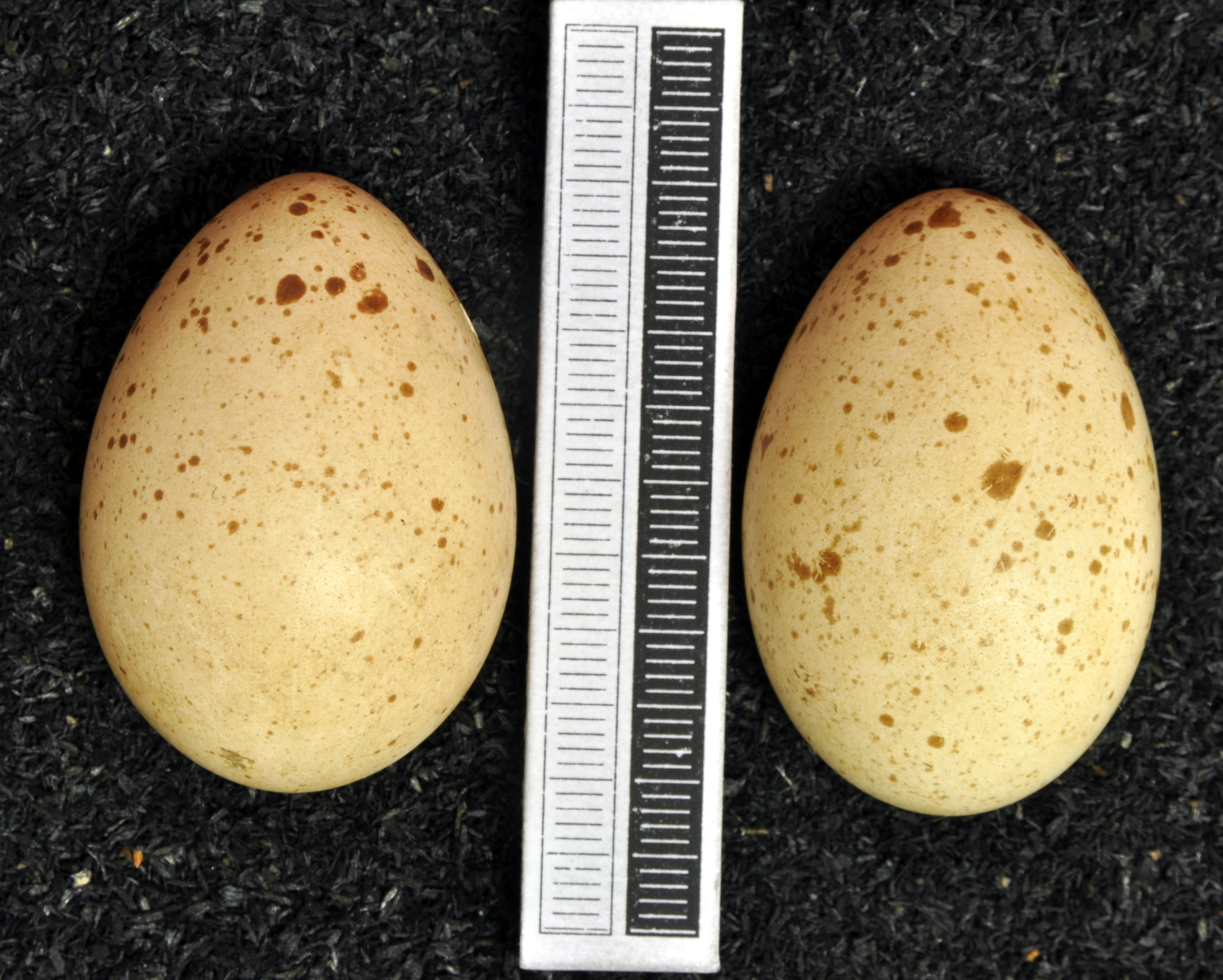 Hazel grouse Bonasa bonasia , egg, Coll. Museum Wiesbaden